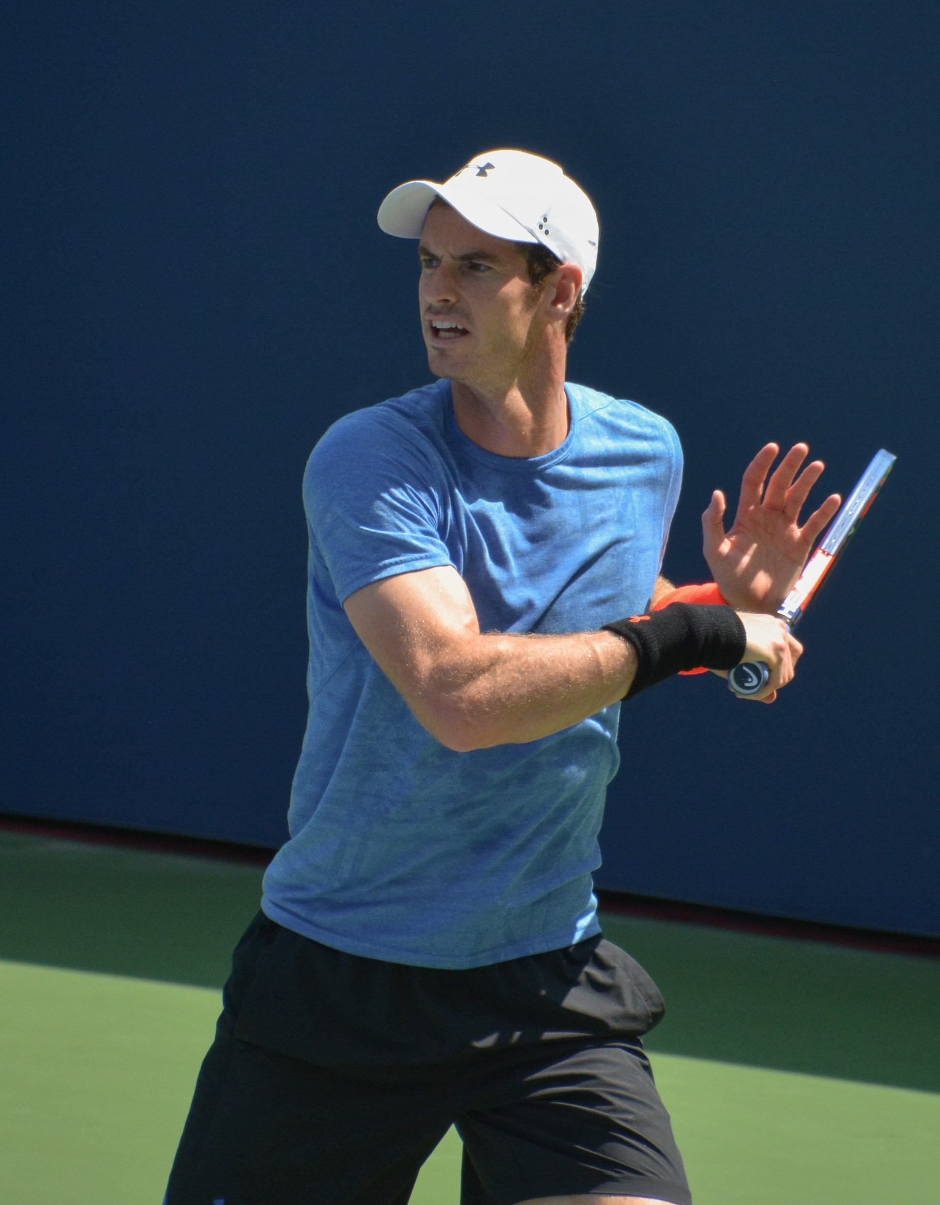 US Open – Practice day, Sunday 26th August 2018